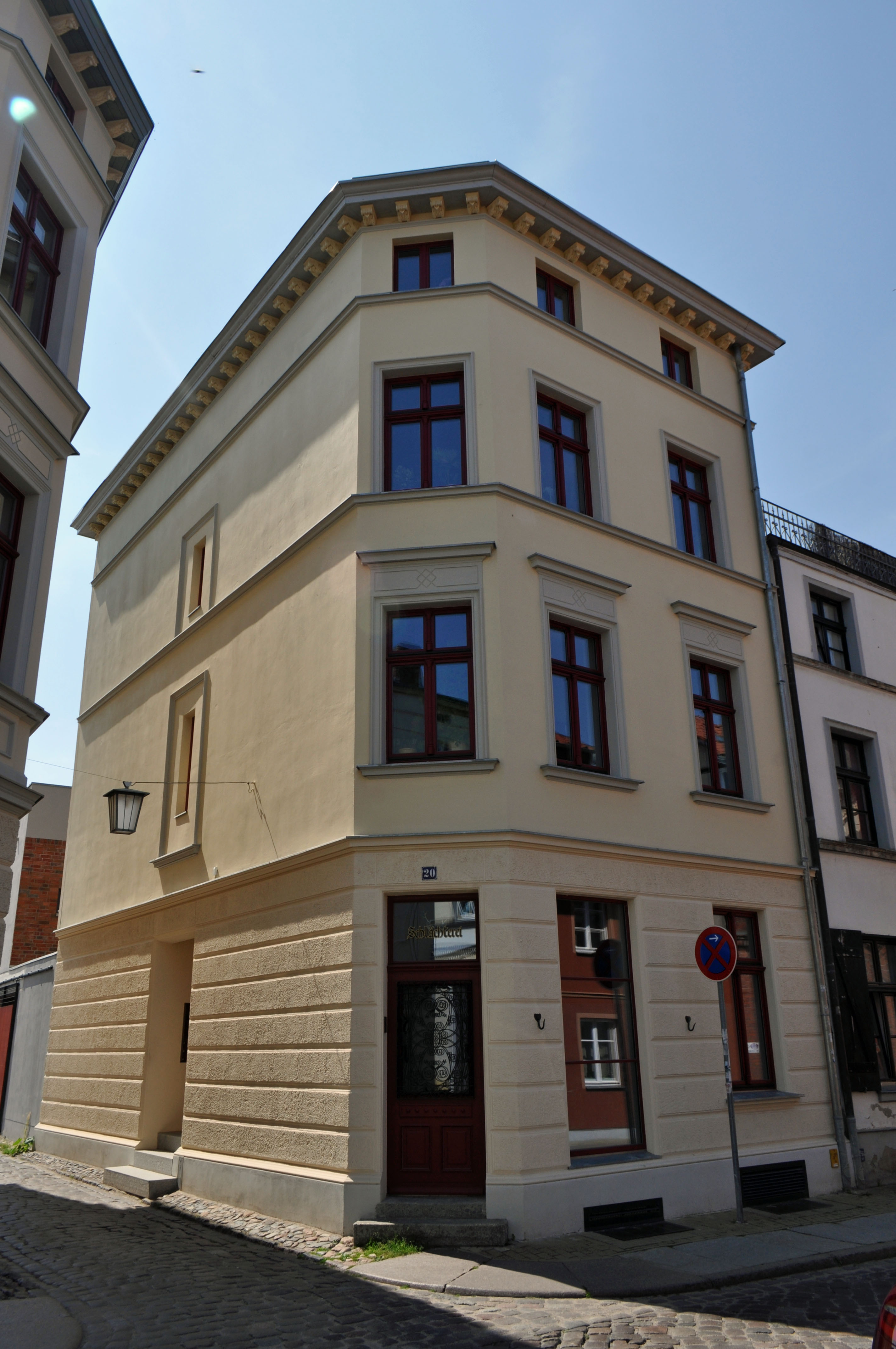 Frankenstraße 20, Ecke Fischergang This is a photograph of an architectural monument.